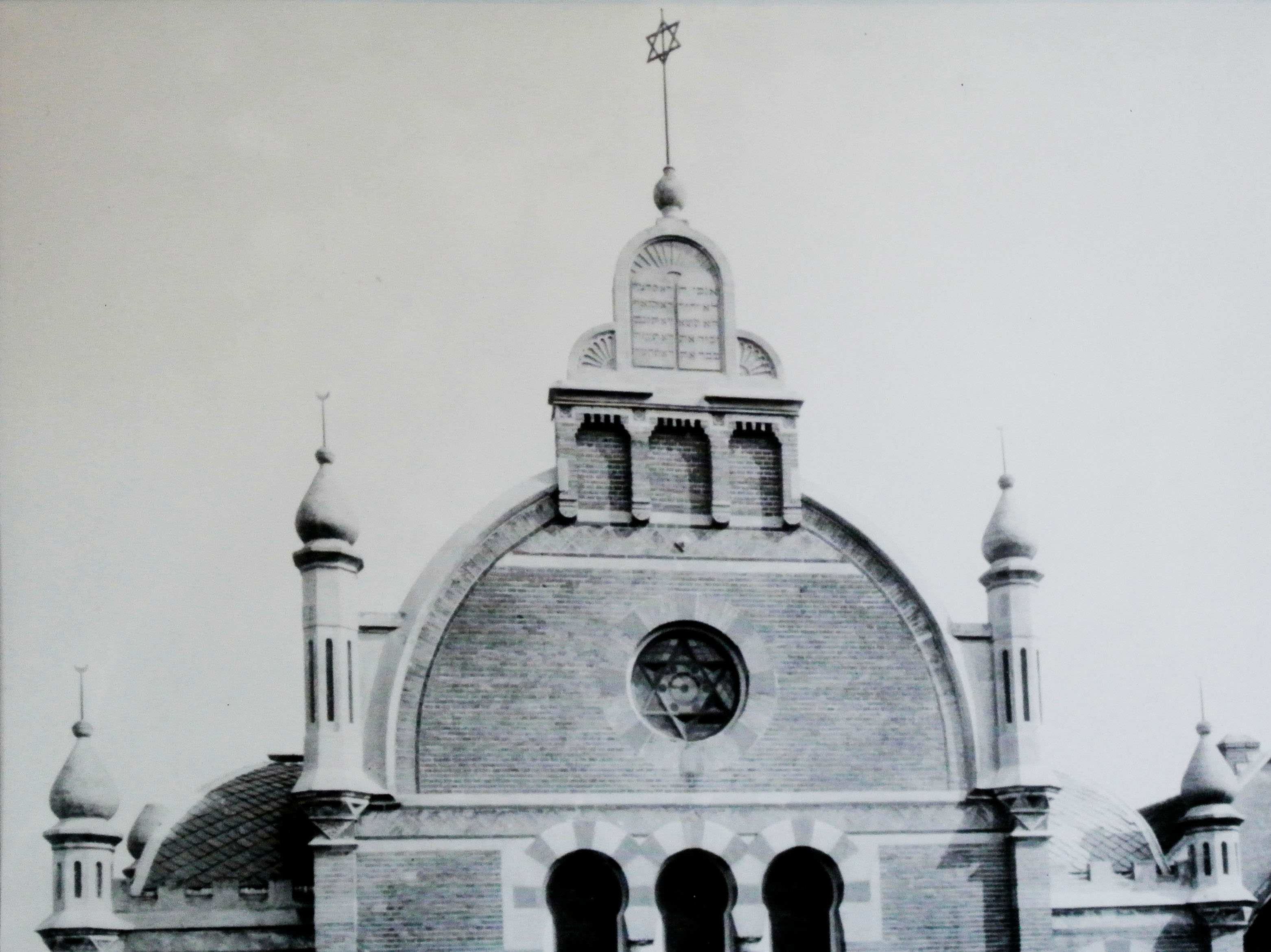 Original façade of the Great Synagogue of Deventer, The Netherlands